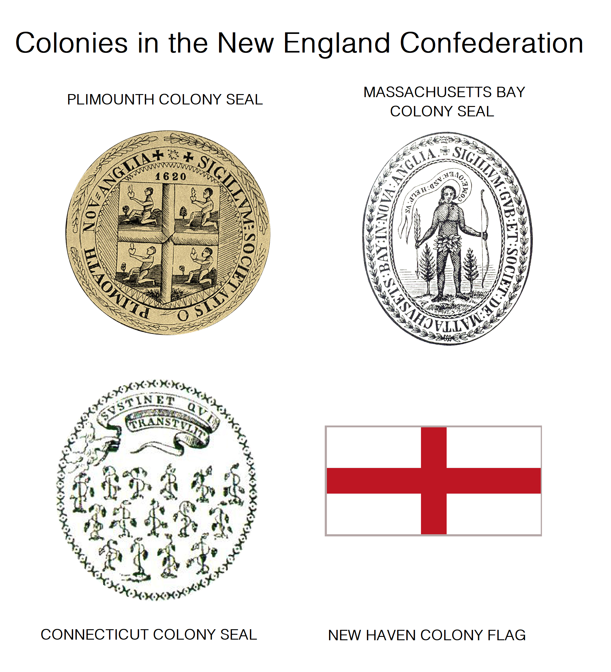 New England Confederation component colonies seals and flags